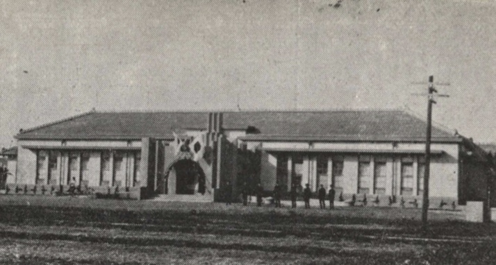 潮州郡役所